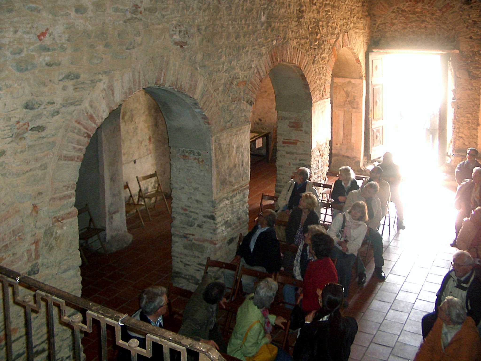 Candia Canavese, Church of Santo Stefano al Monte, inside the church, Romanesque architecture